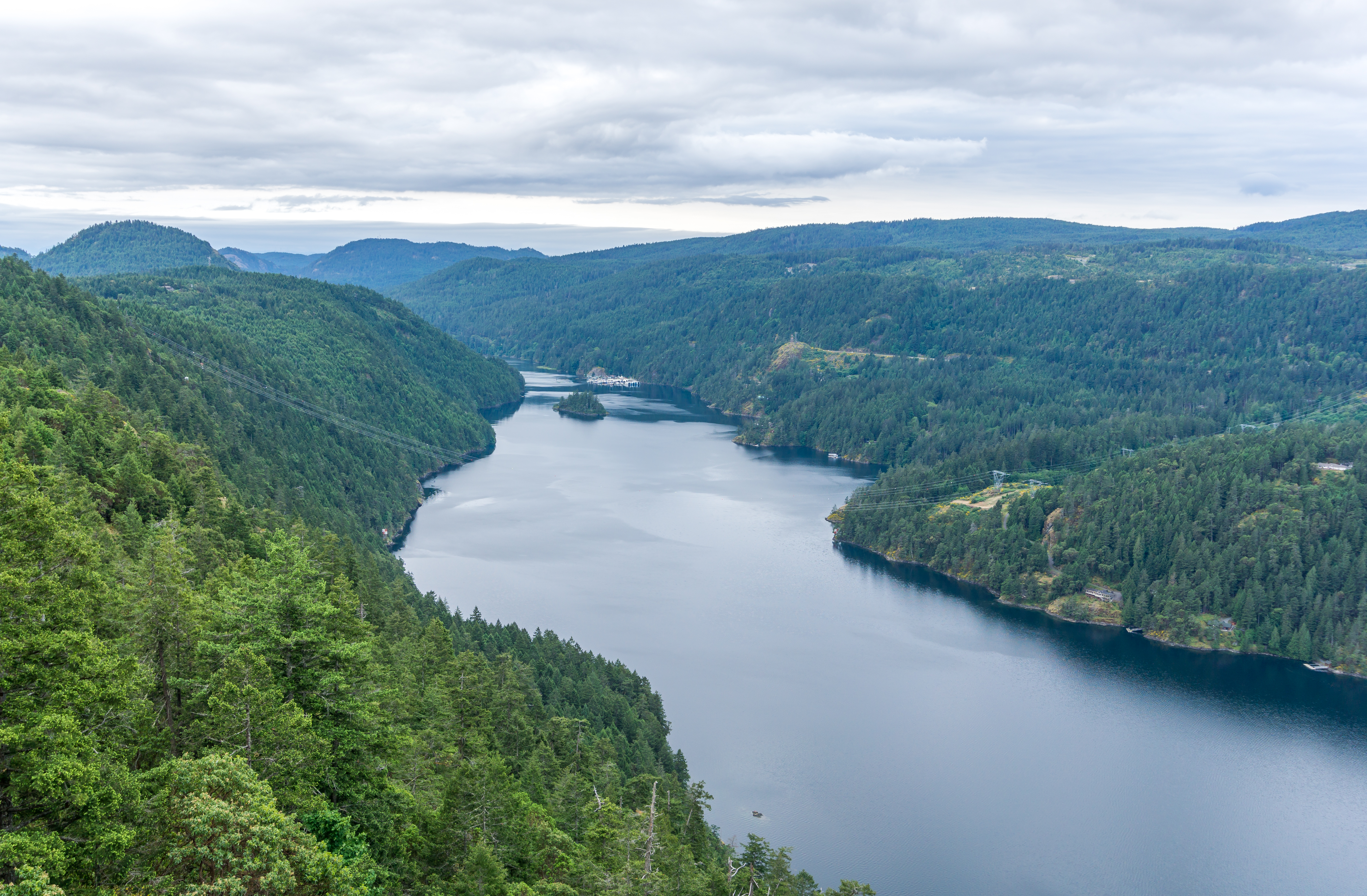 Saanich Inlet from Gowlland Tod Provincial Park, Vancouver Island, Canada